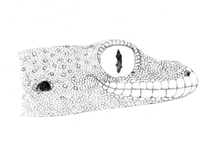 Gymnodactylus loriæ = Cyrtodactylus loriae